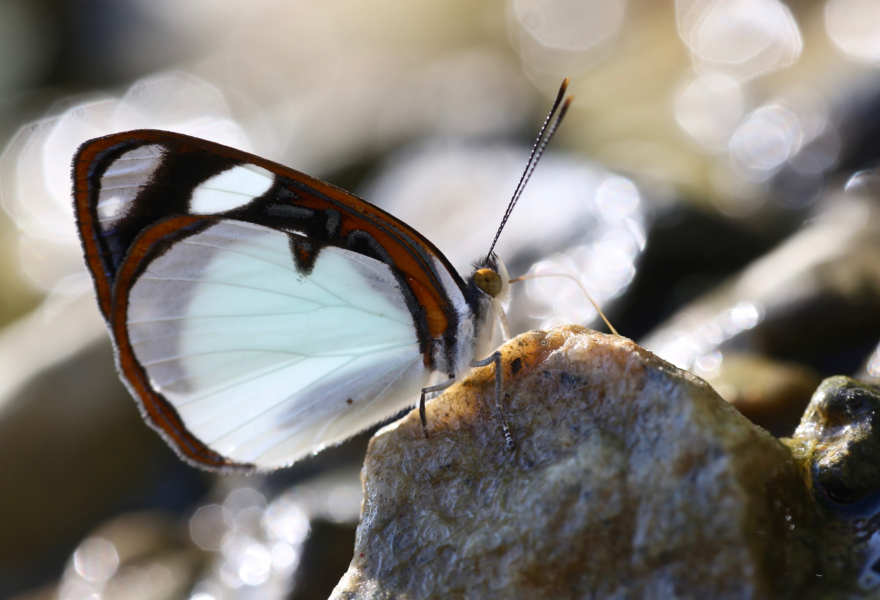 Ecuador, Napo Province, Puerto Misahuallí